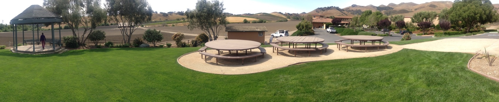 Panorama of Talley Vineyards in the Edna Valley American Viticultural Area in Arroyo Grande, California, on Monday, April 6, 2015.